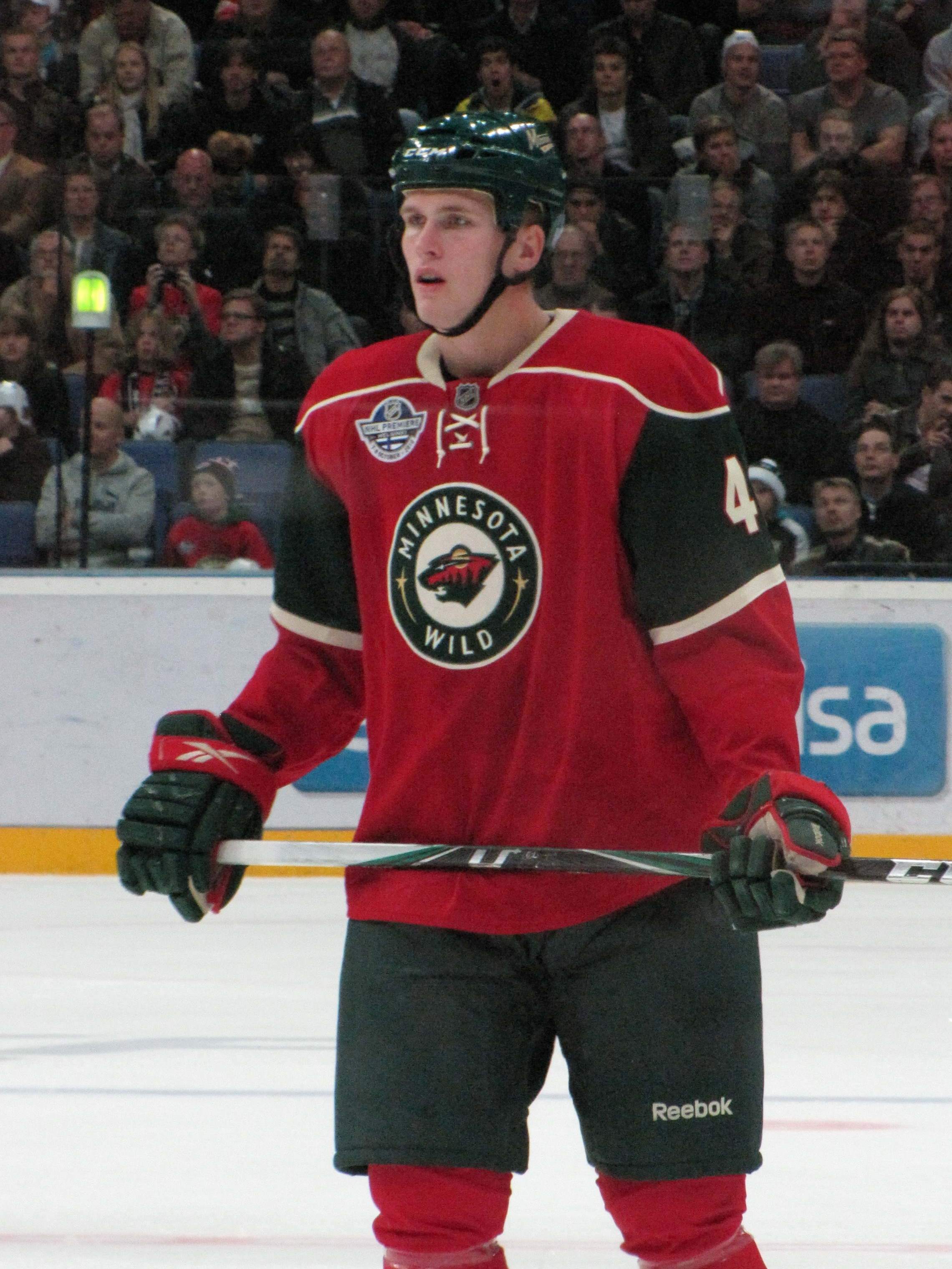 Canadian ice hockey defenceman Justin Falk playing for the Minnesota Wild in Helsinki, Finland.